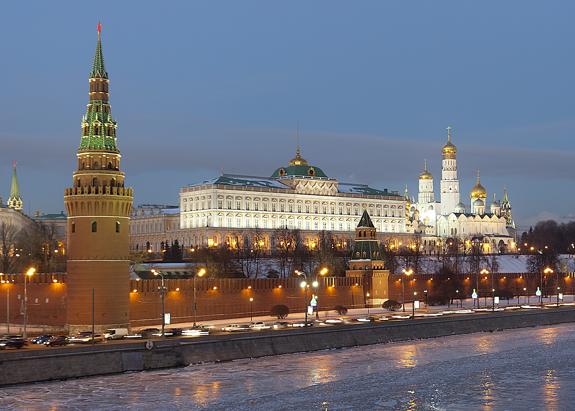 Moscow Kremlin, Russia